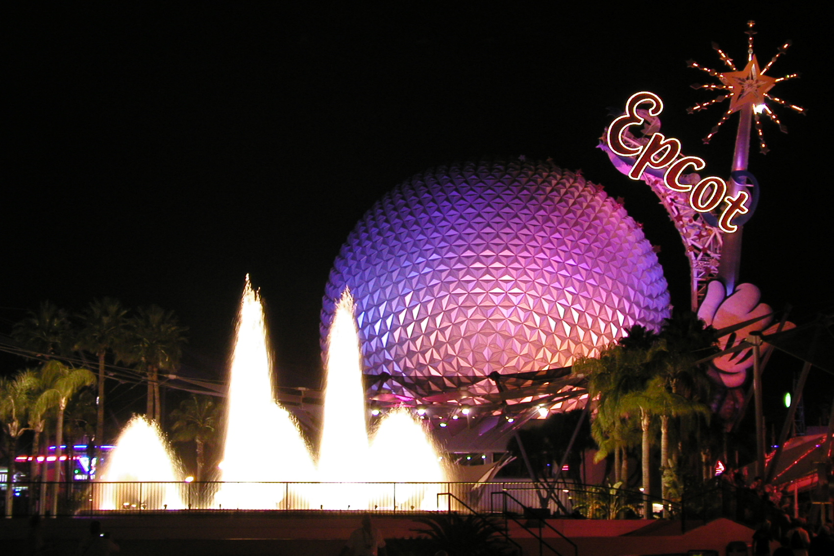 Spaceship Earth and the Fountain of Nations at Epcot in Walt Disney World.